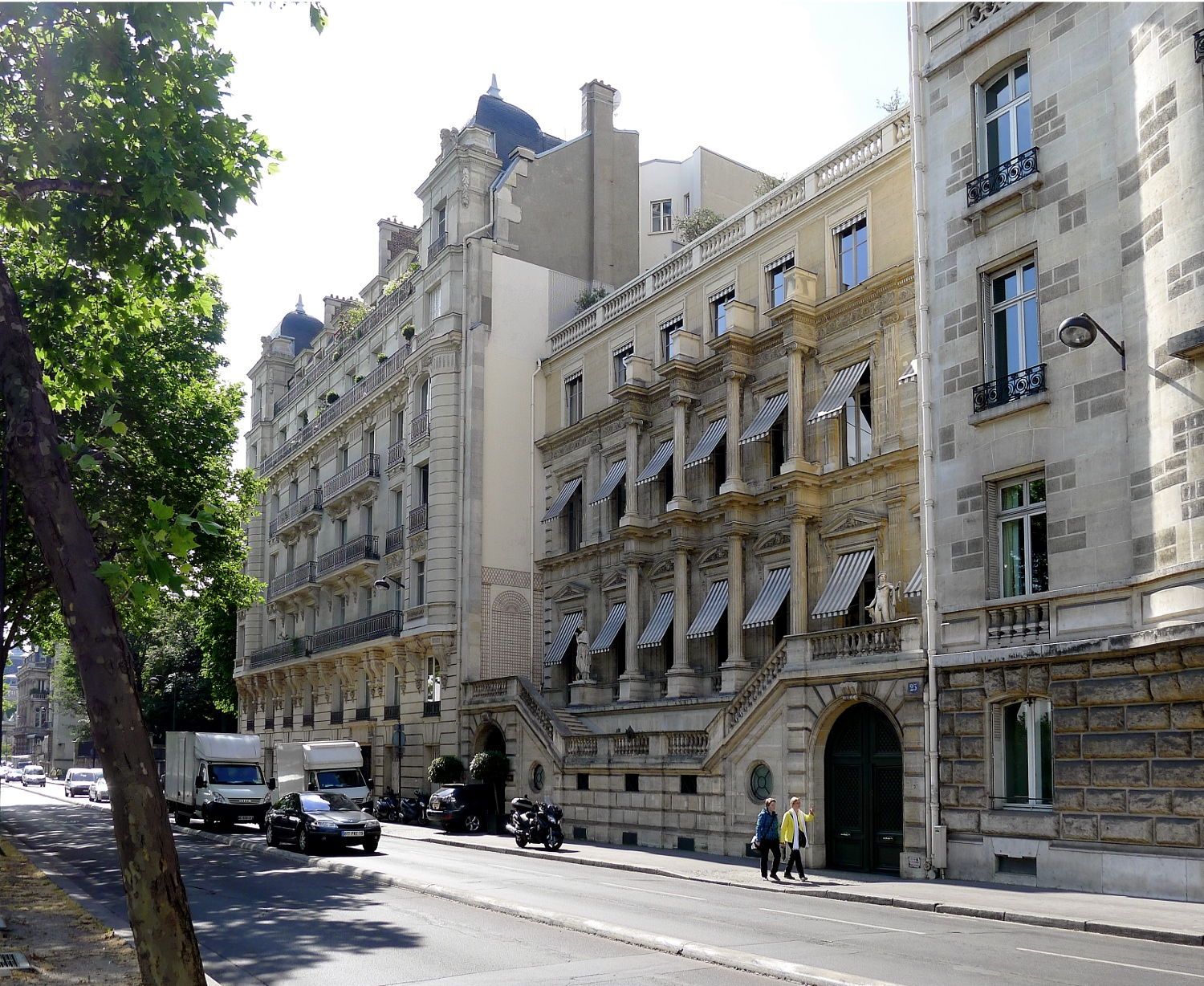 Quai Anatole-France (n°25 Collot hôtel) - Paris